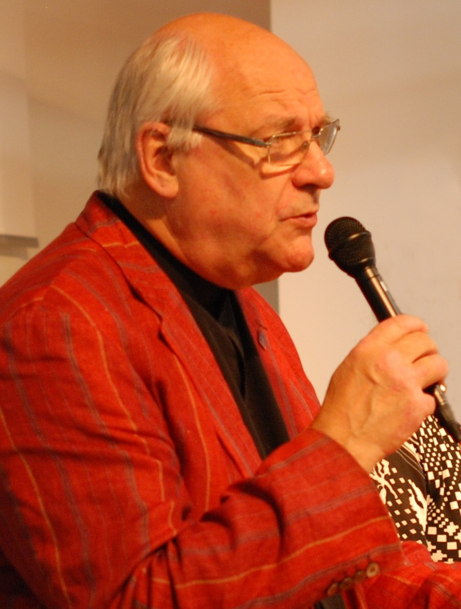 Swedish actor Tomas Bolme at Göteborg Book Fair 2010